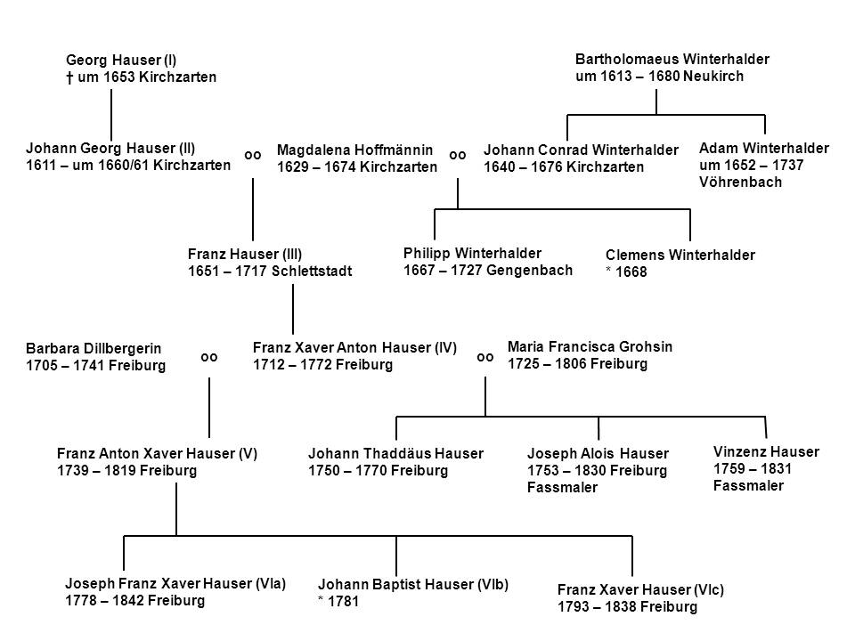 Family tree of the sculptor familiy Hauser, corrected version